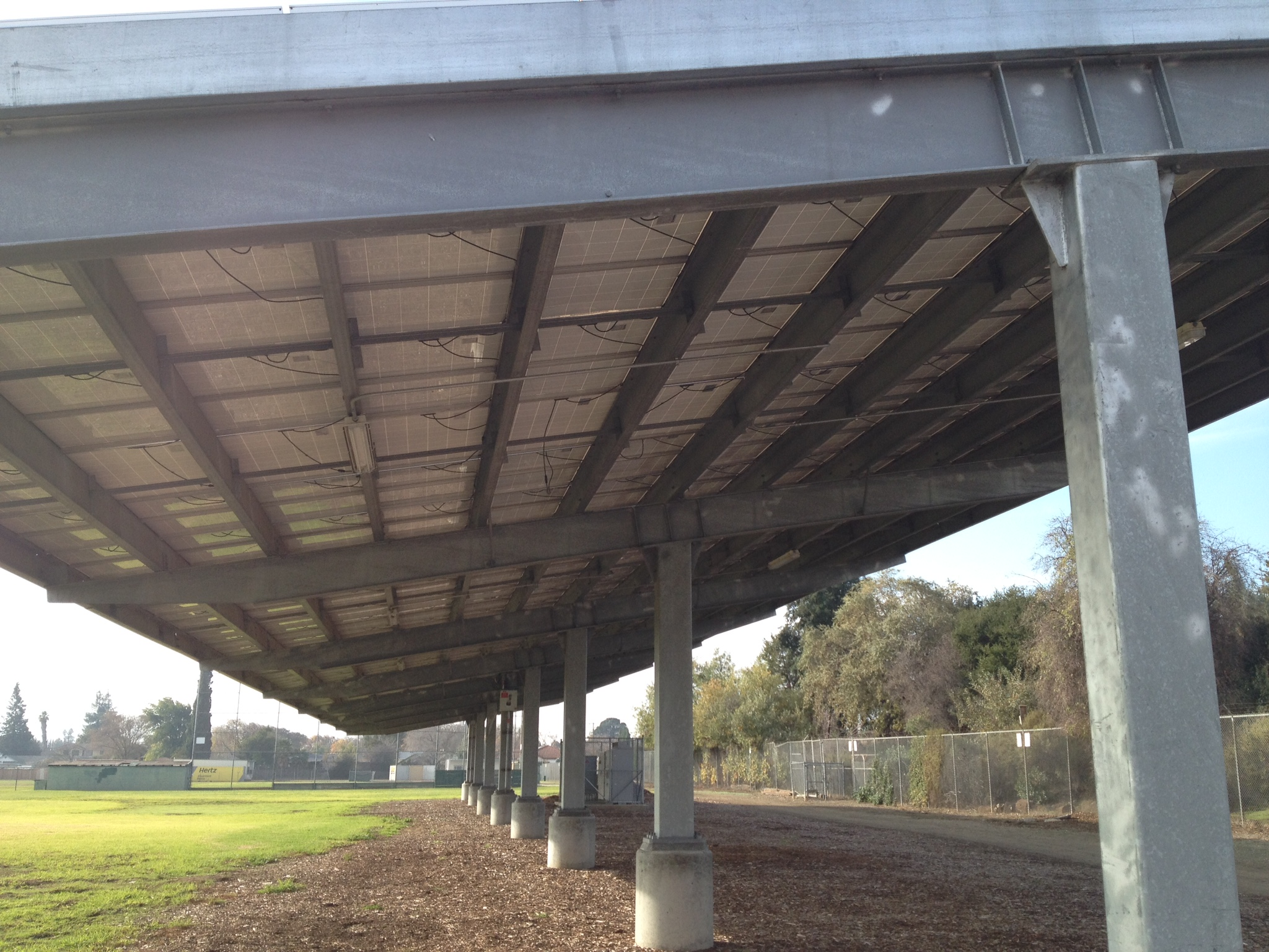 Peterson Middle School's North Solar Panels, at the northern edge of the field. Underside of array.